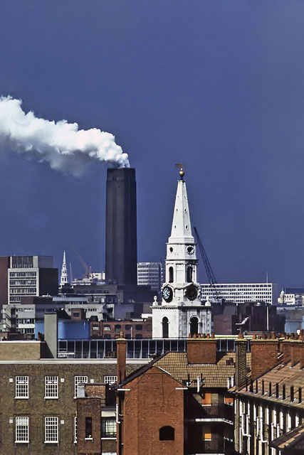 Roofscape of Southwark, London SE1, seen from the roof of 165 Great Dover St. The white tower and spire between the viwere and the chimney are those of St George the Martyr parish church in Borough High St. The chimney is that of Bankside power station, which is now the Tate Modern art gallery. The visible plume is largely steam from the flue gas washing plant. This was a very unusual feature, but a condition for its continued operation in the city centre.